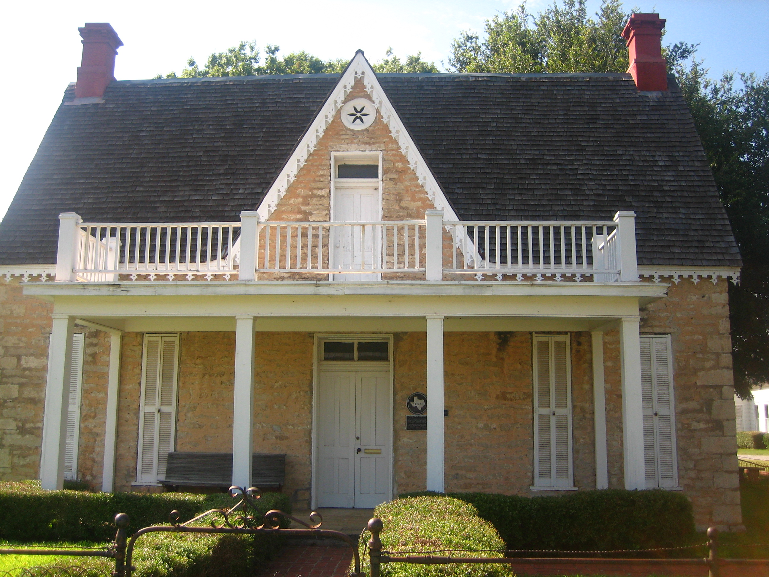 Oldest house in Stephenville, Texas, United States. Built in 1869 from native limestone, the house was designated a Recorded Texas Historic Landmark in 1967. The house is now part of the Stephenville Historical House Museum. I took photo in July 2008.